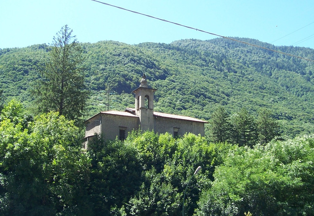 Church of san Zeno. Demo, Berzo Demo, Val Camonica